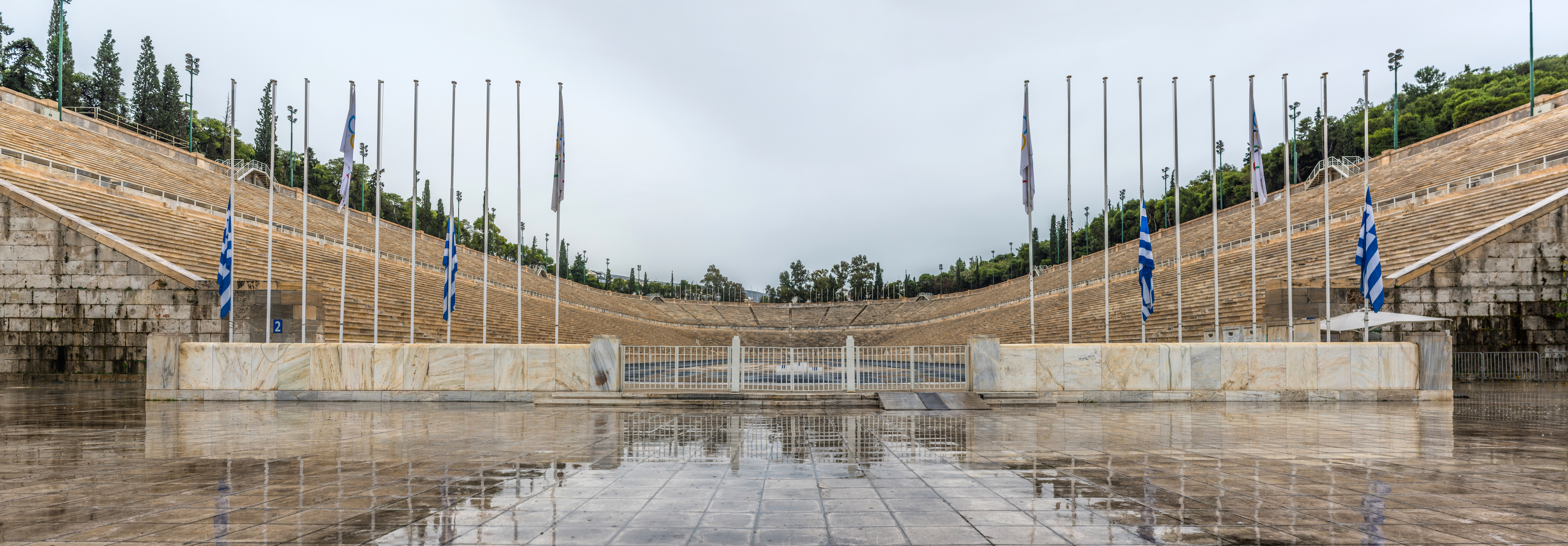 Athens Greece November 2017